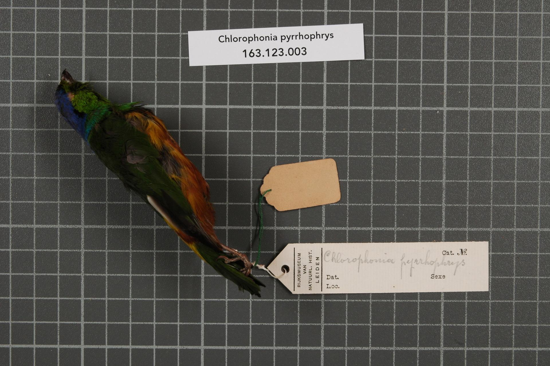 Chlorophonia pyrrhophrys (Sclater, 1851)